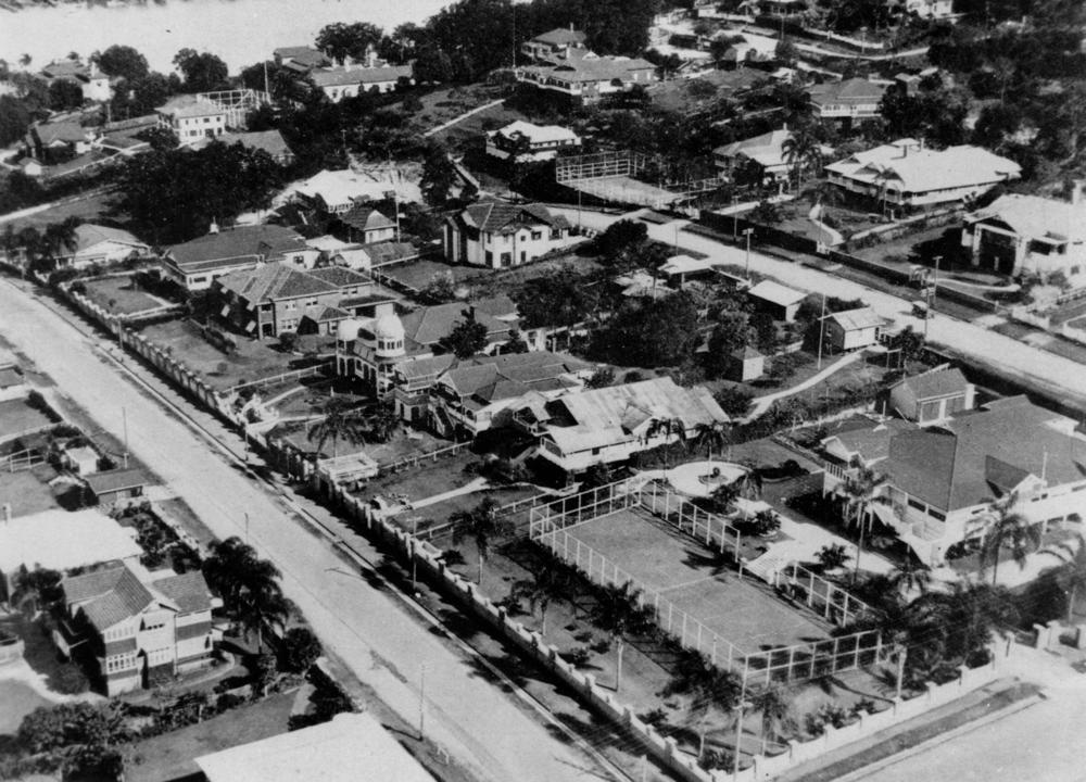 Aerial view of the Riverview Terrace area of Ascot, Brisbane, ca. 1930. Aerial view of streets in Ascot, showing the area bounded by Riverview Terrace, Windermere Road and Killara Avenue. (Description supplied with photograph.) For a wider view featuring this image see negative number 10286.